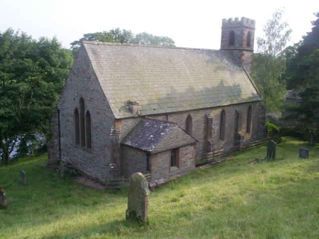 St Theobald's Church, Great Musgrave. The present St Theobald's Church in Great Musgrave, designed by G.R. Appleby, was constructed in 1845. It is on the edge of the village beside the River Eden, tranquillity indeed.